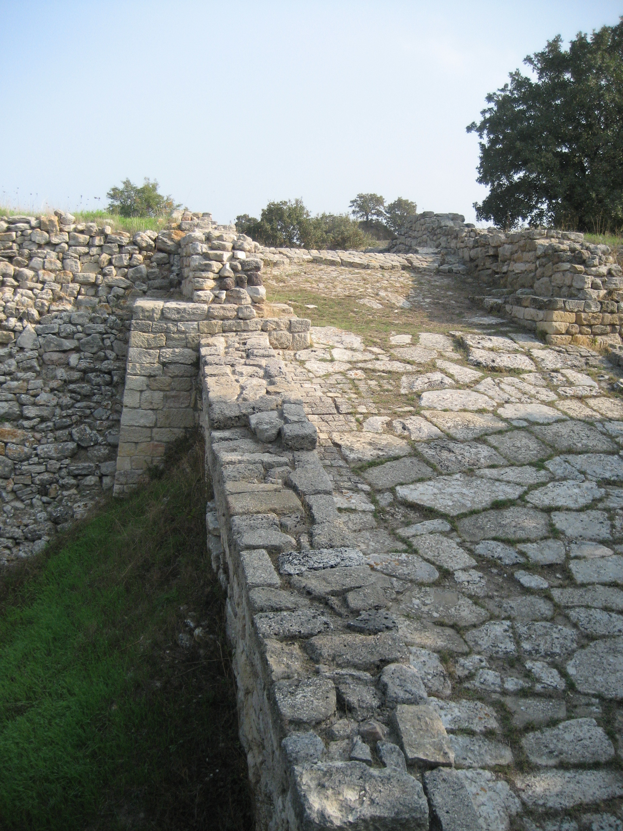 Entrance ramp to Troy IITroy II